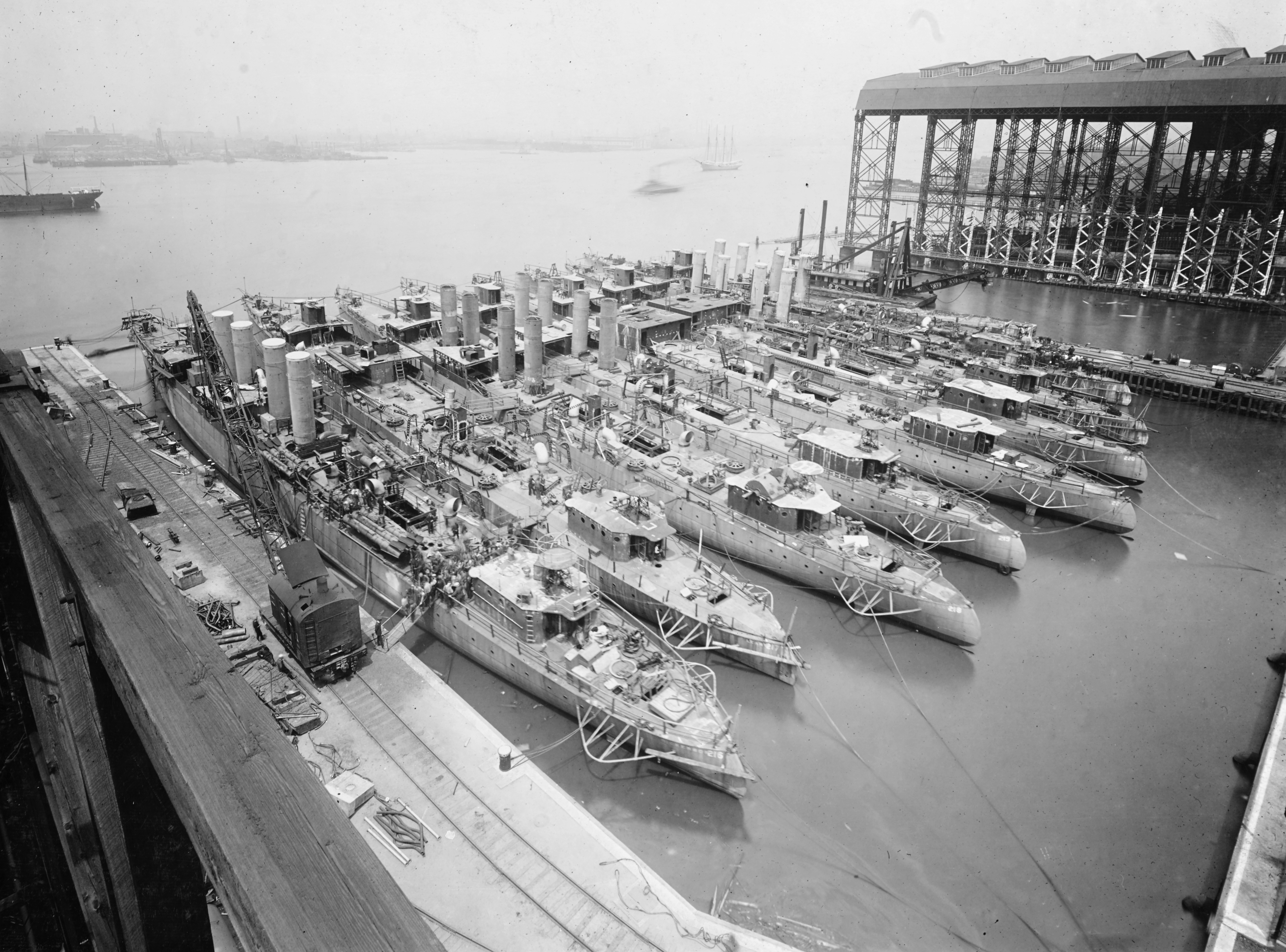 View of the New York Shipbuilding Corporation shipyard, Camden, New Jersey (USA), in May 1919. Seven Wickes-class destroyers and a Clemson-class destroyer are fitting out. These ships are (from left to right): USS Dickerson (Destroyer # 157, builder's hull # 216); USS Leary (Destroyer # 158, builder's hull # 217); USS Schenck (Destroyer # 159, builder's hull # 218); USS Herbert (Destroyer # 160, builder's hull # 219); USS Brooks (Destroyer # 232, builder's hull # 221); USS Hatfield (Destroyer # 231, builder's hull # 220); USS Babbitt (Destroyer # 128, builder's hull # 213) and USS DeLong (Destroyer # 129, builder's hull # 214). Note the triple torpedo tubes on the wharf in the center foreground, and the destroyer smokestacks in the lower left.